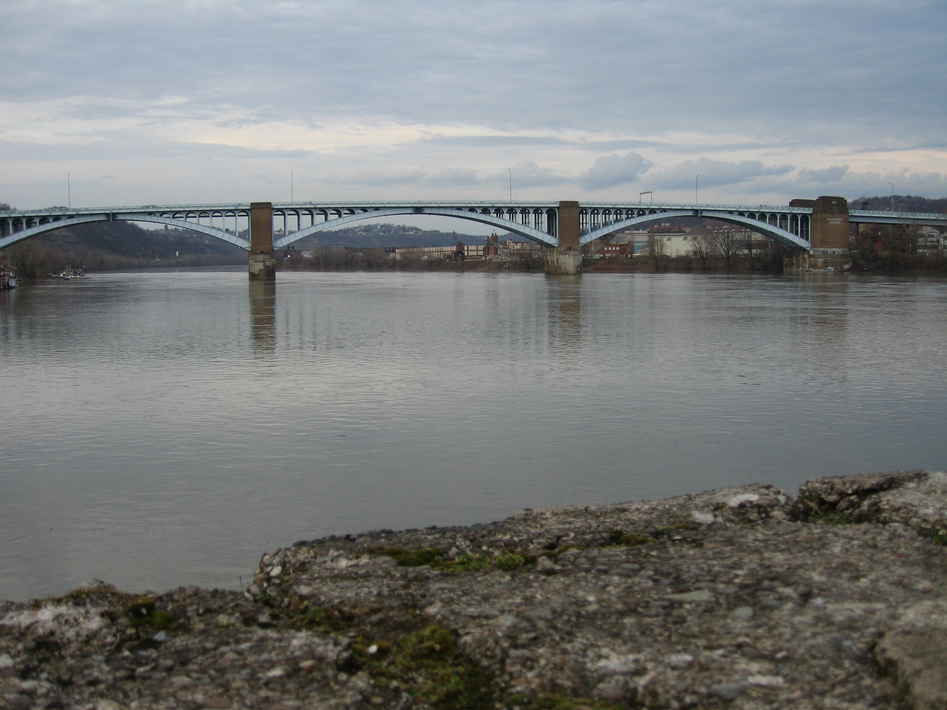 40th St Bridge